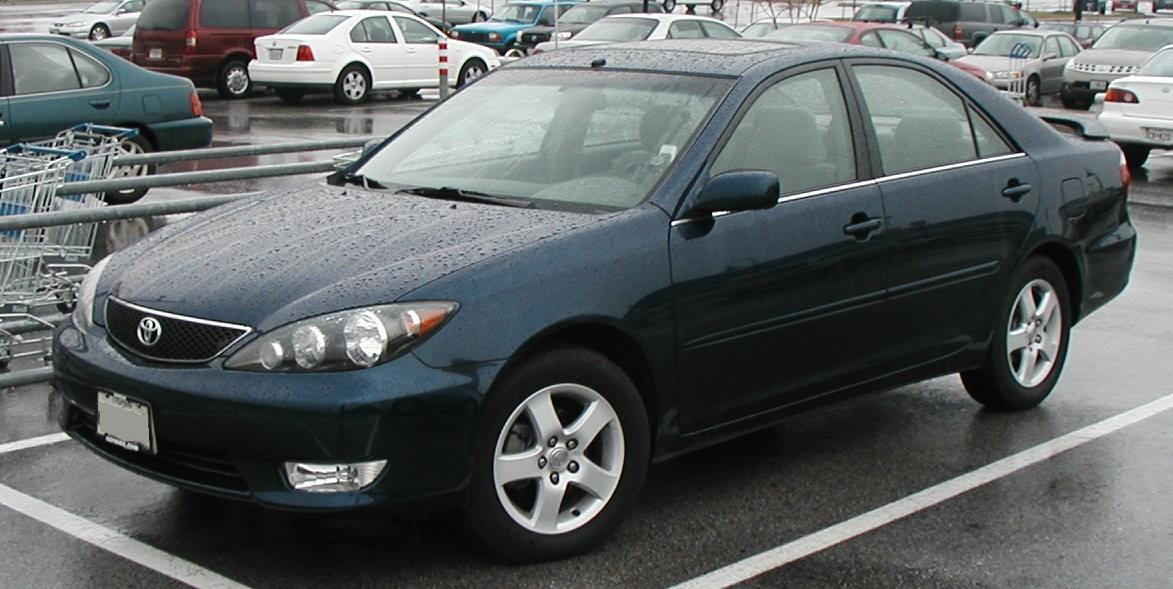 2004-2005 Toyota Camry SE photographed in USA.